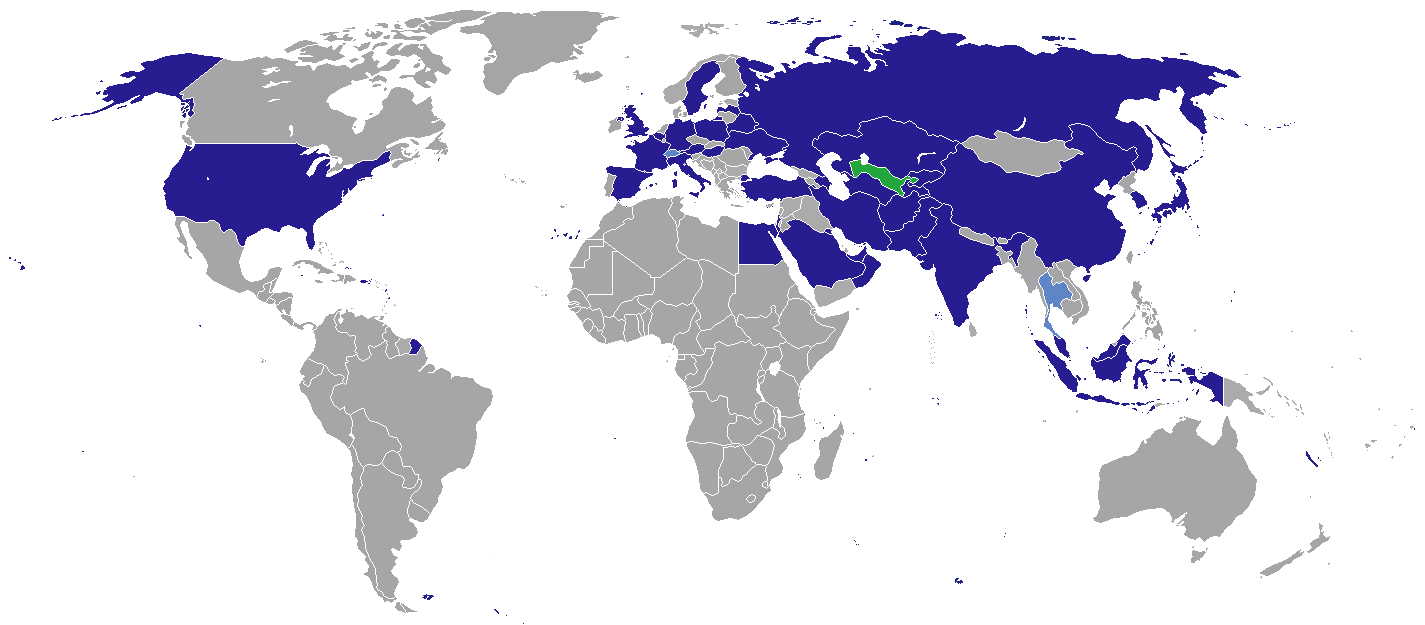 Diplomatic missions of Uzbekistan